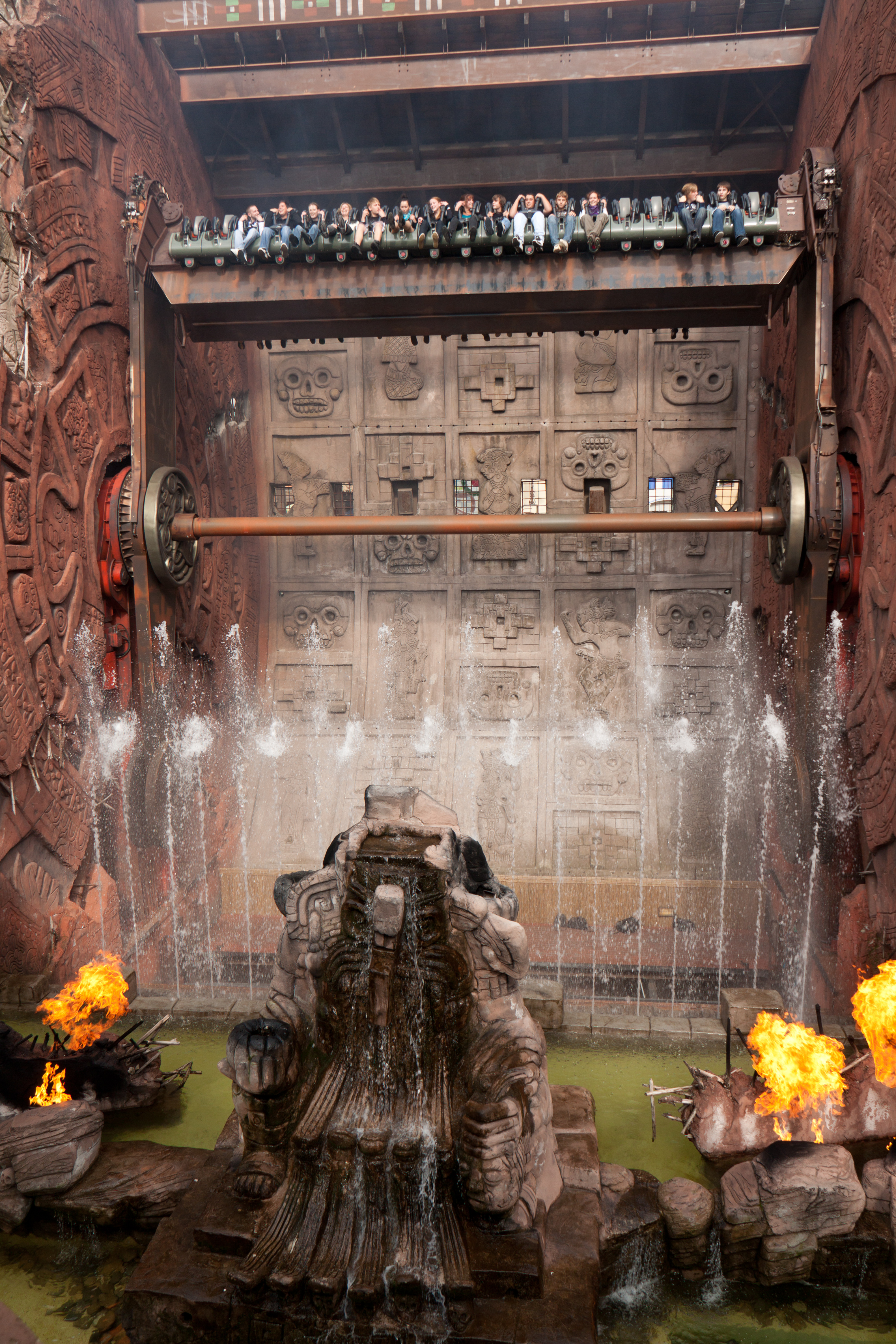 Suspended Top Spin Talocan at Phantasialand